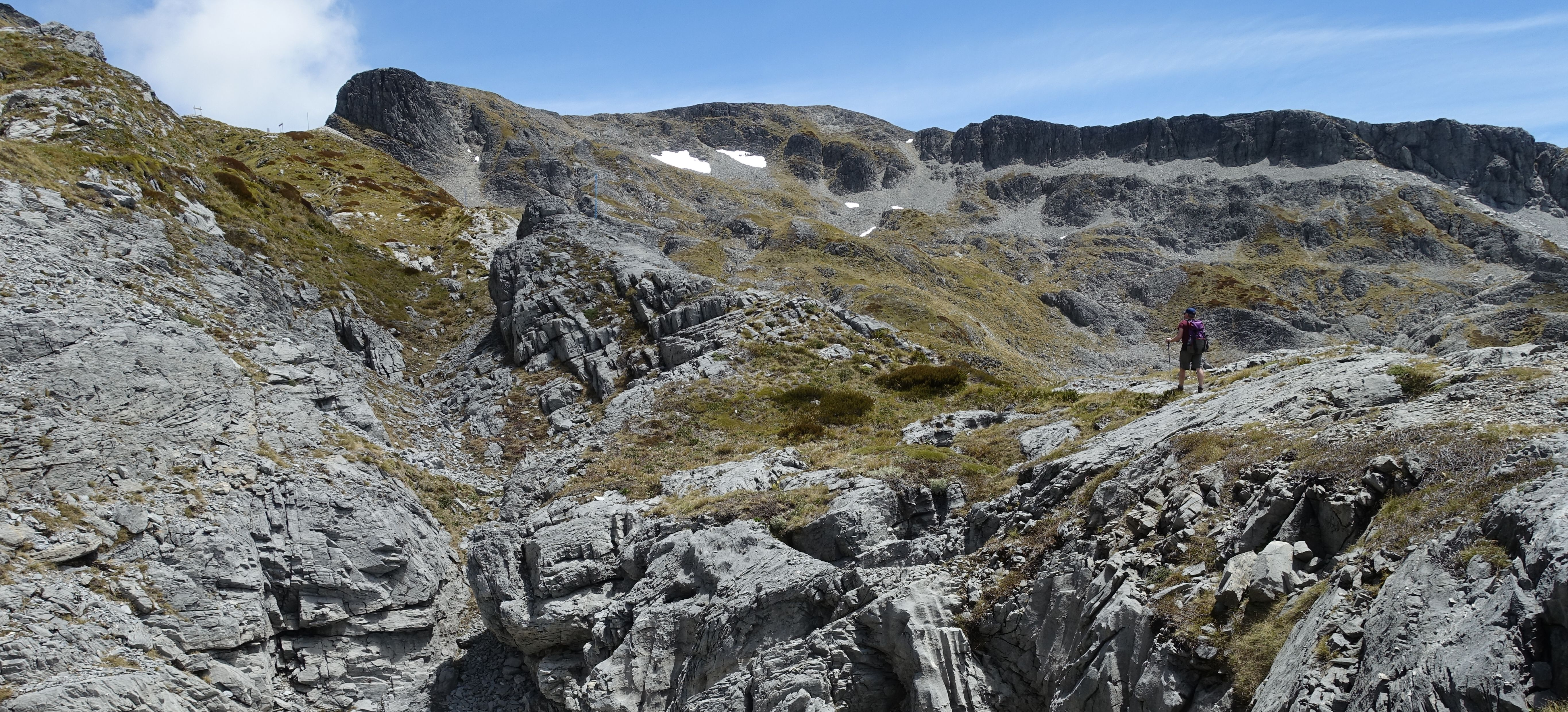 Walk to Mount Arthur